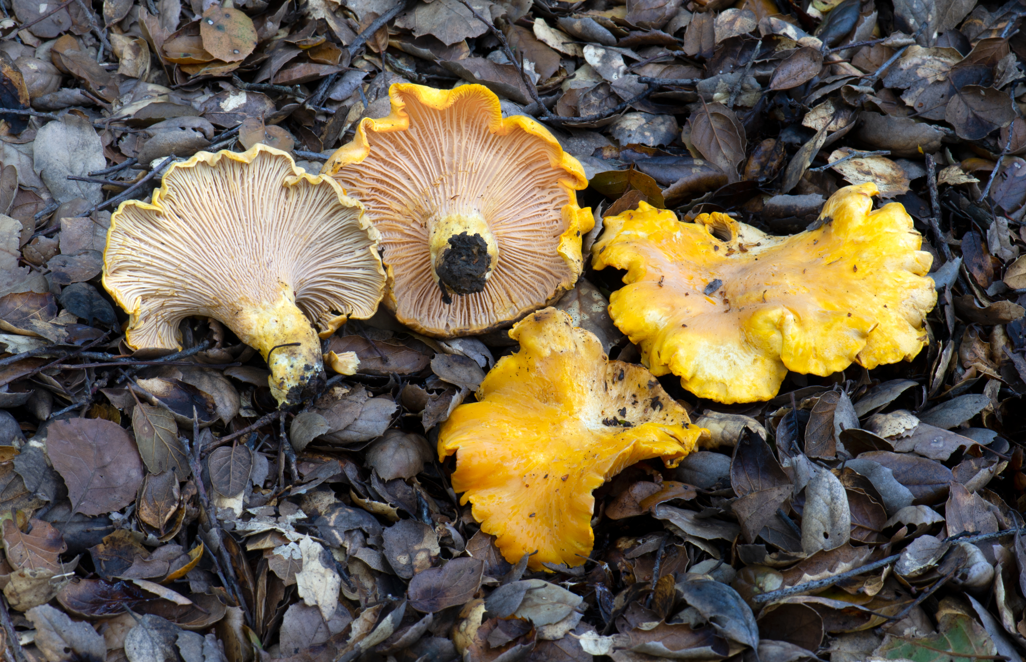 Cantharellus californicus photographed in Oakland. Under Quercus agrifolia.